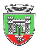 city coat of arms of Tvardica, Bulgaria Stadtwappen von Twardiza, Bulgarien Герб на град Твърдица